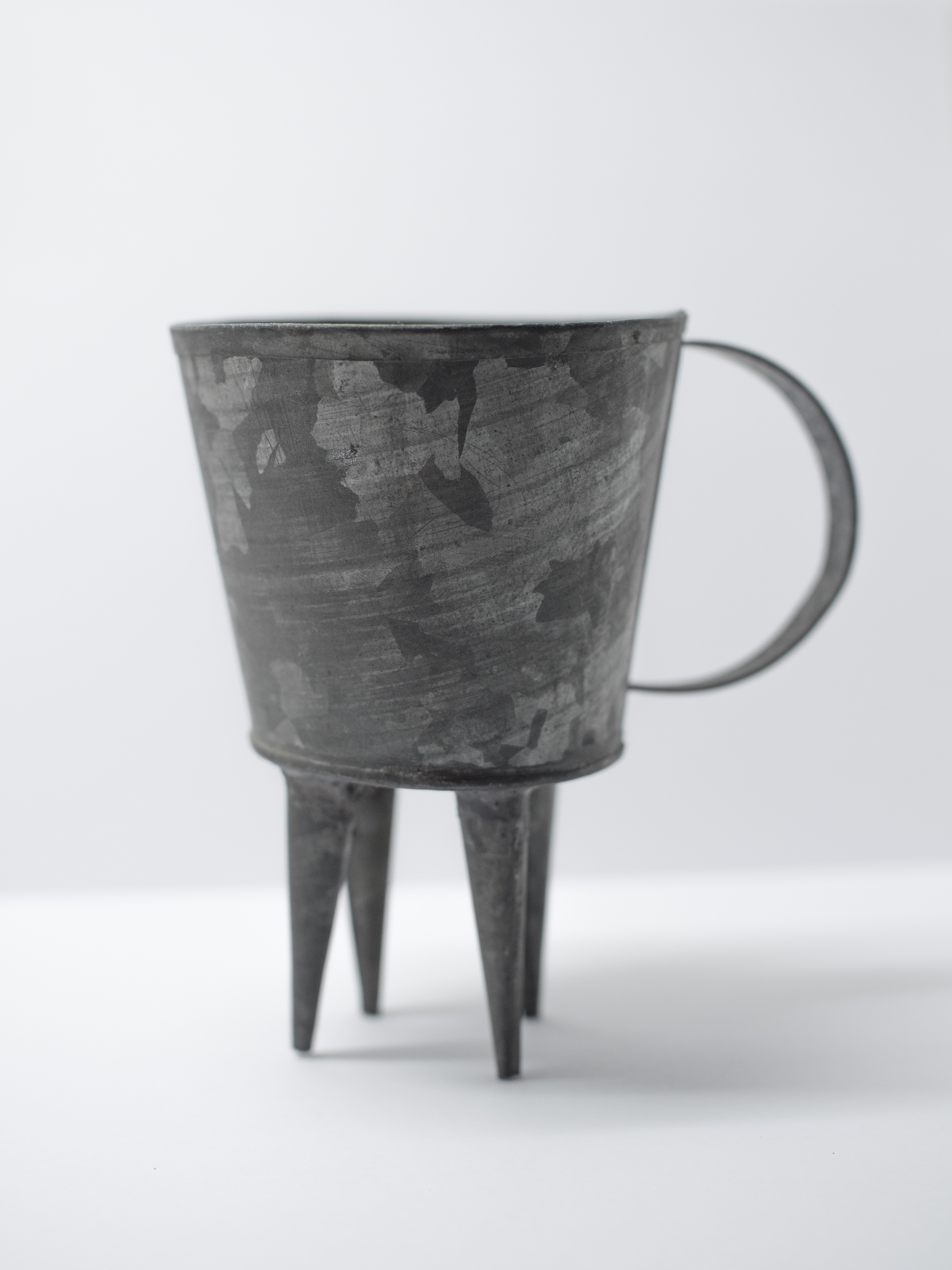 A soldered tin cup bought in the early 1970s in Singapore for making roti jala (Malay lace pancakes). The cup can hold around 160 ml (2/3 cup) batter. The four "legs" are hollow so the batter can drizzle out forming a lace-like pancake.